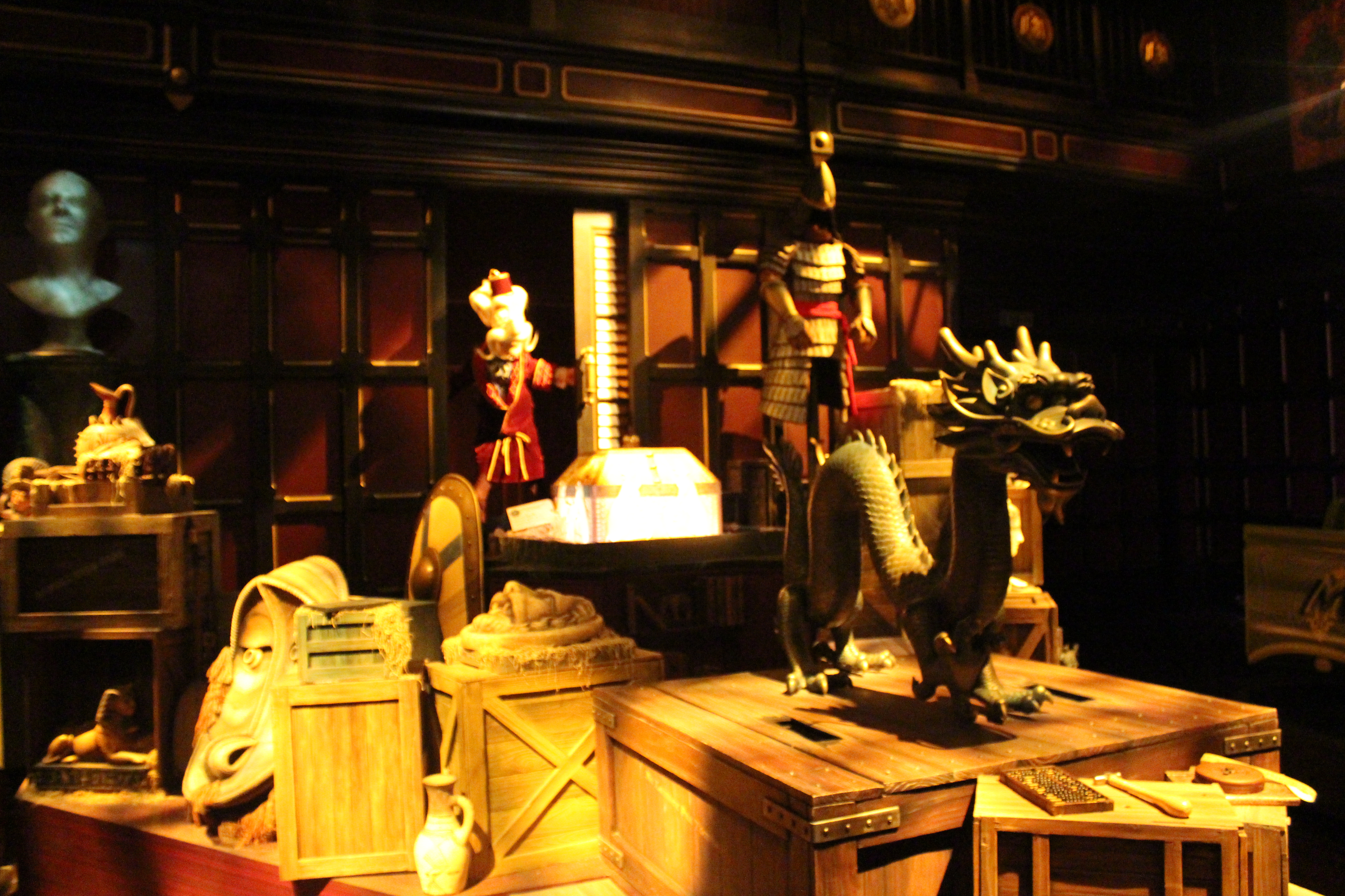 Mystic Manor, Hong Kong Disneyland, Hong Kong